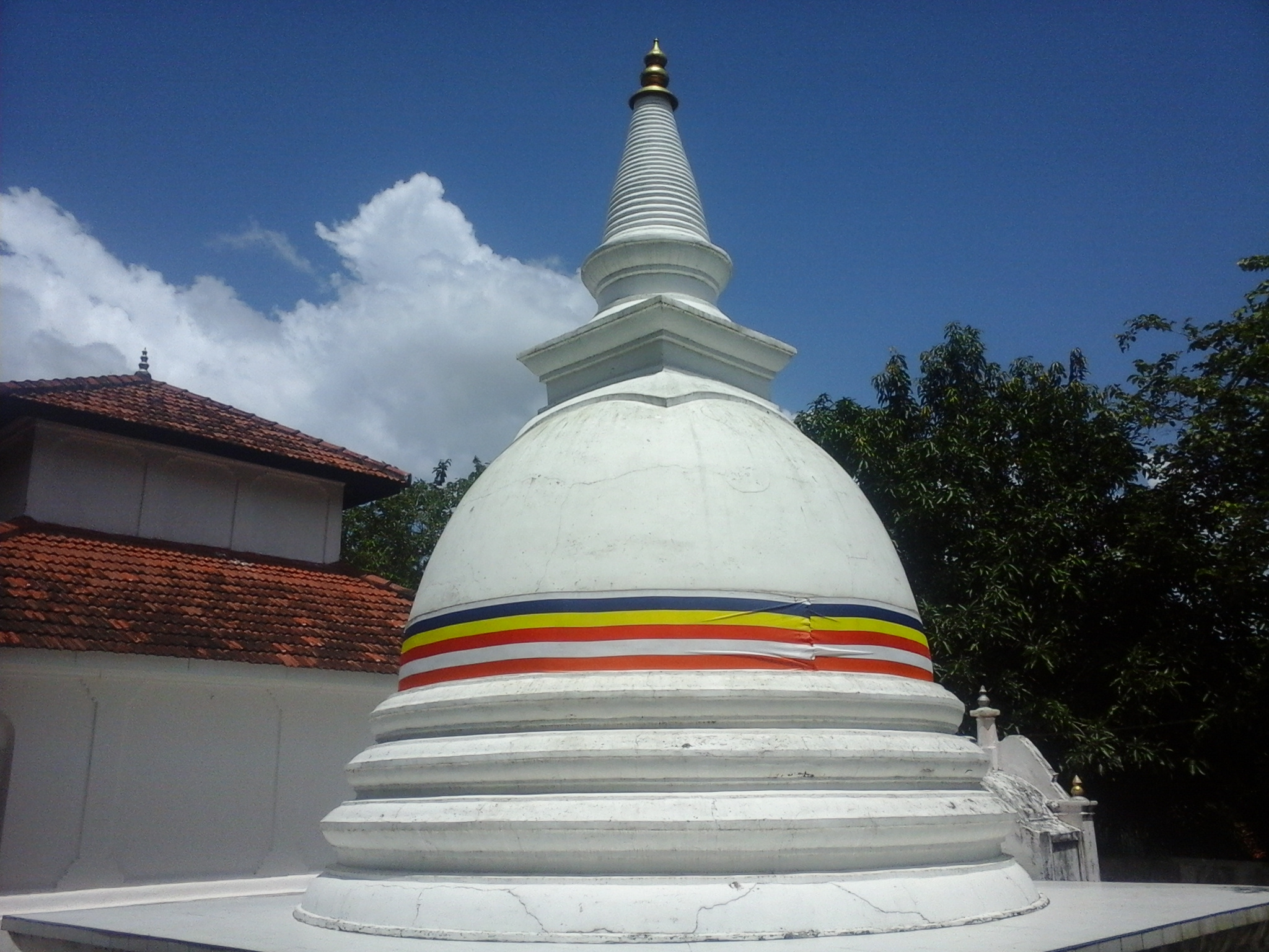 Naigala Raja Maha Vihara pagoda